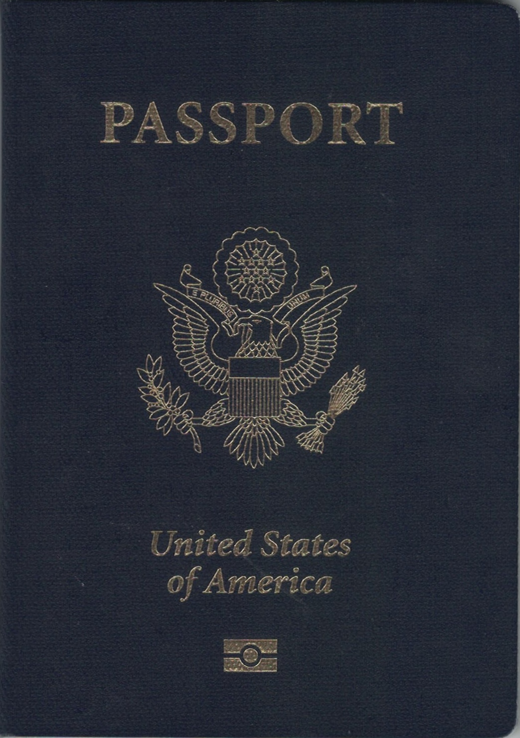 Biometric United States passport issued in 2007